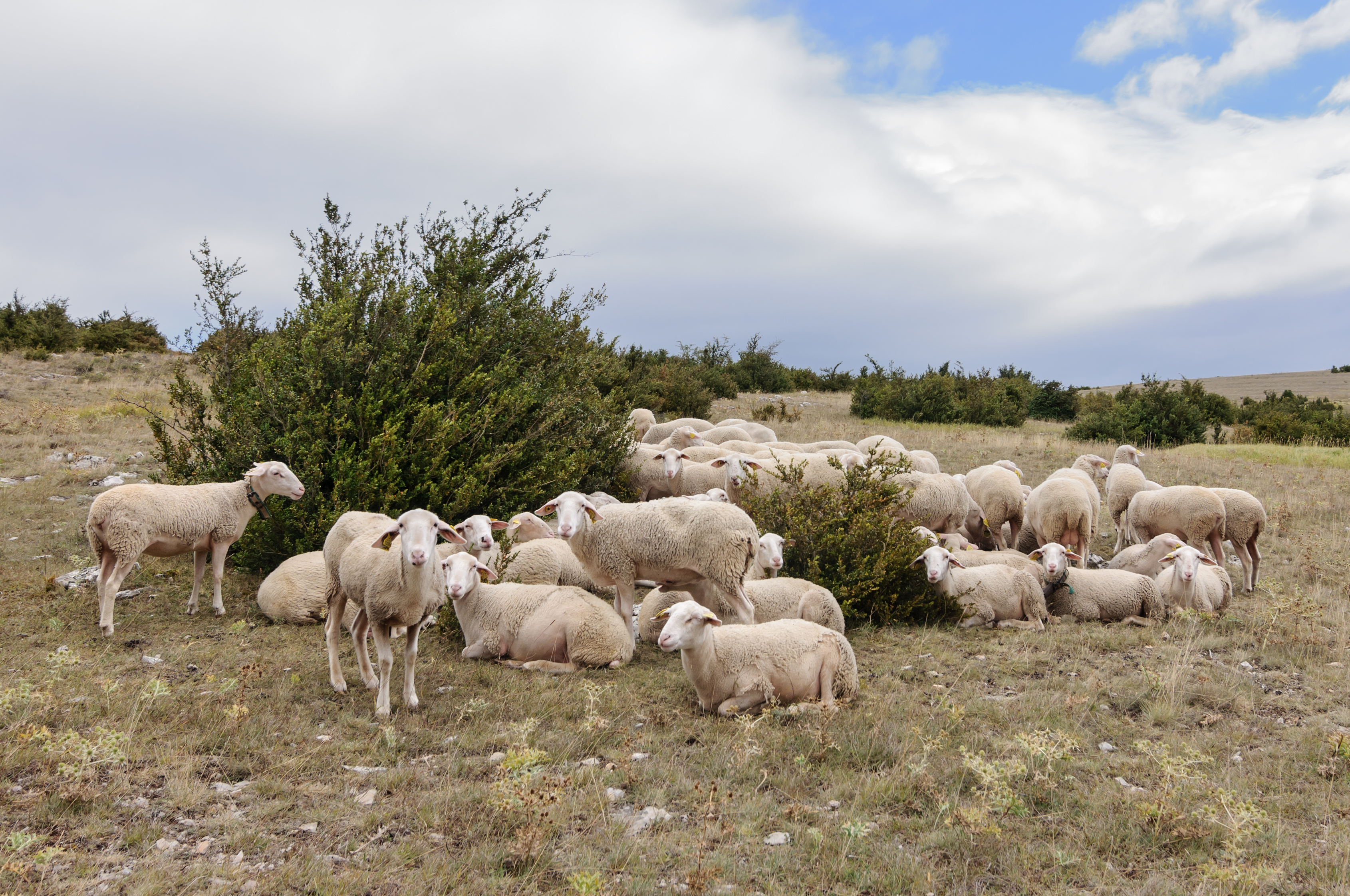 Flock of Lacaune sheep on Causse Méjean, Lozère, France.